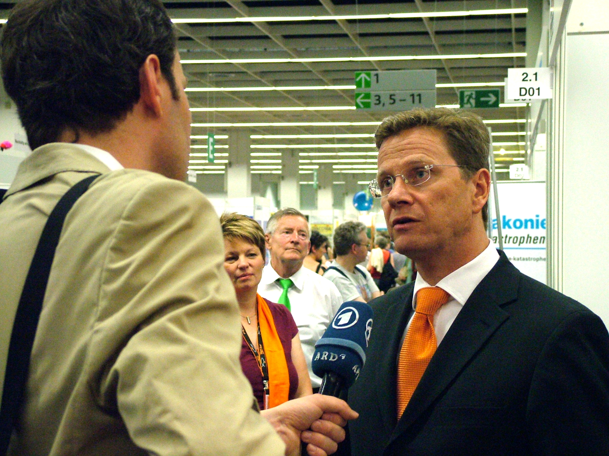 Guido Westerwelle, chairman FDP (German liberal party), Kirchentag Cologne 2007